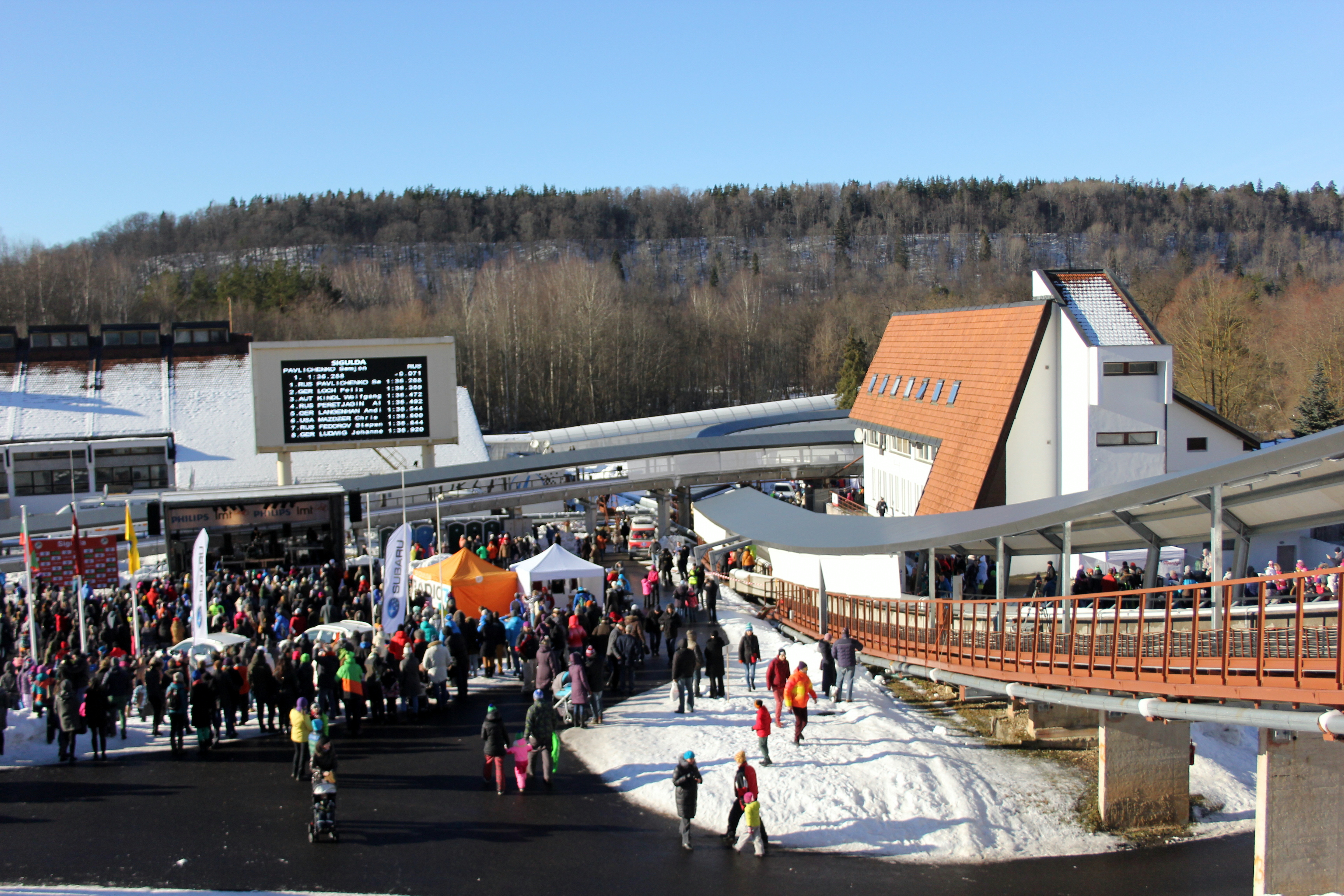 Sigulda luge track